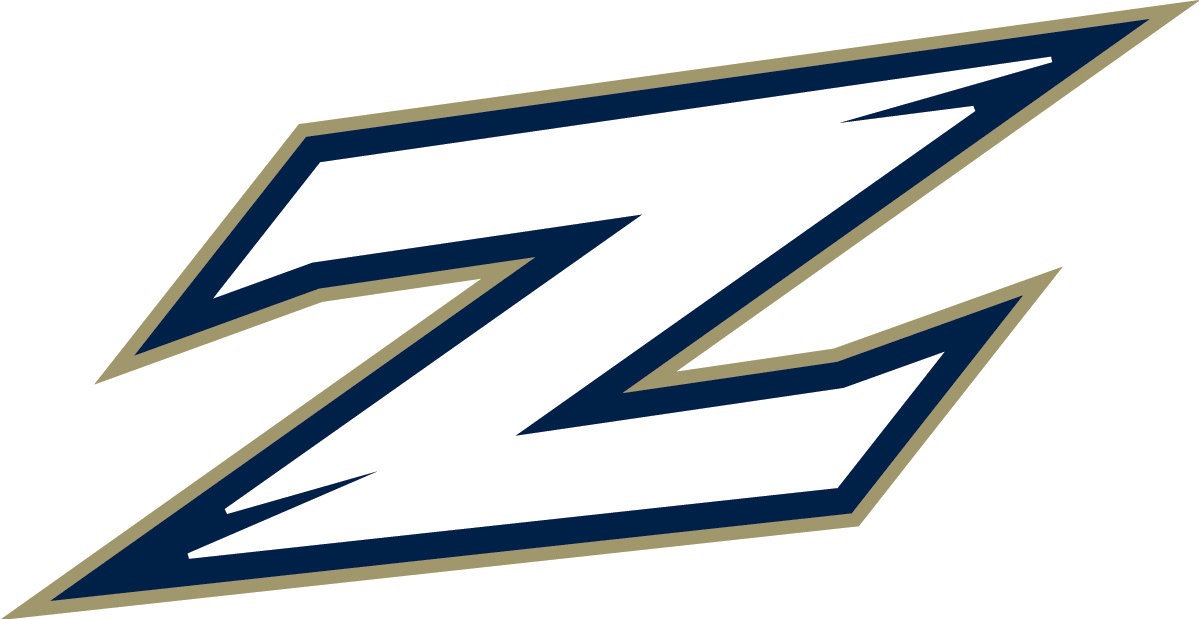 Primary logo for the Akron Zips from the University of Akron in Akron, Ohio. The Z logo was first introduced in 2002 as a secondary logo and was made the primary logo in May 2015.